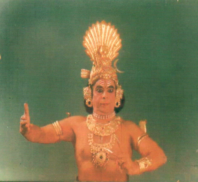 An article about my father "Guru Chandrasekharan" Adding his dance photos by Santhikumar Chandrasekharan